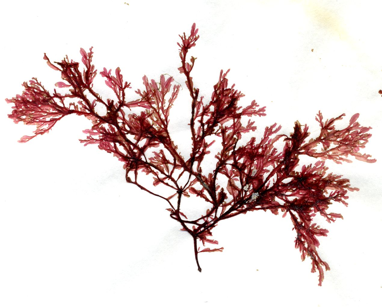 Membranoptera alata (Huds.) Stackh., herbarium sheet. Collected 1985-09-10, Heligoland (Germany)